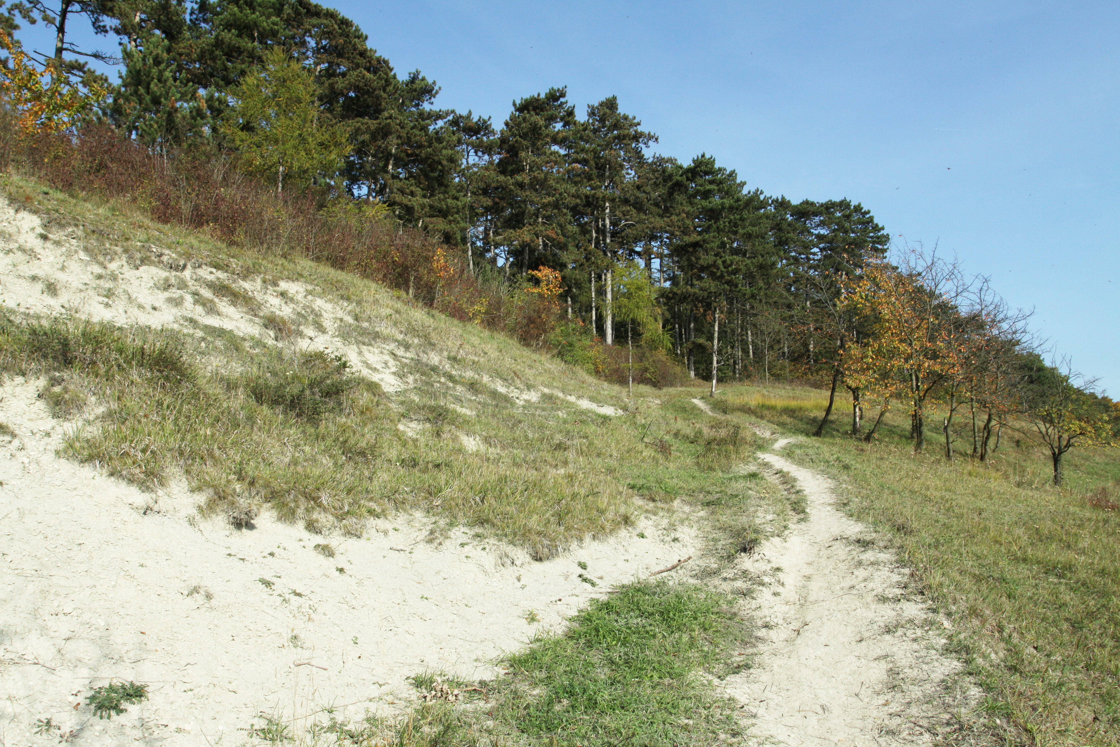 Natural monument Báň near Hradčany village in Nymburk District, Czech Republic - Google Maps - Google Earth